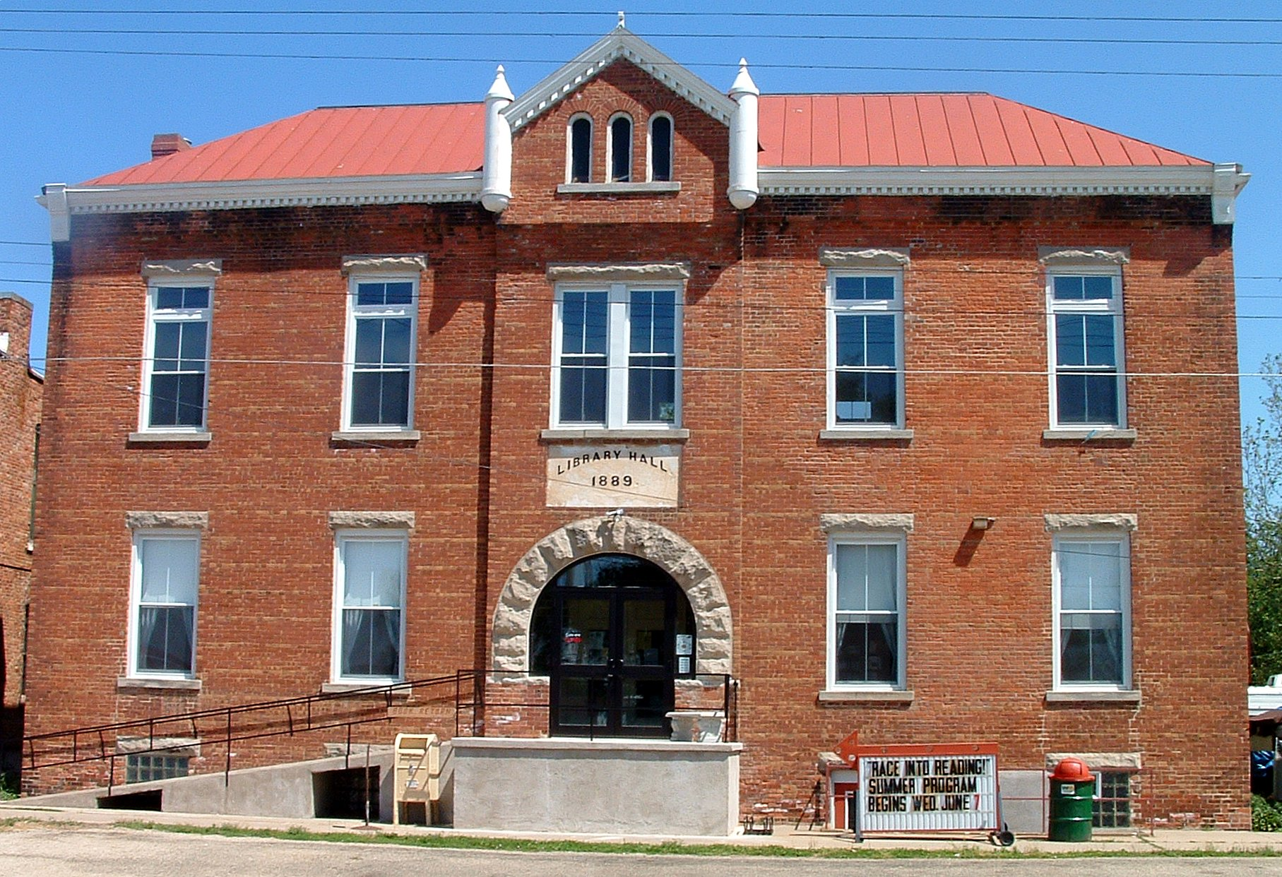 Library Hall in Altona, Illinois. Photograph taken June 4, 2006 by Kelly Martin.